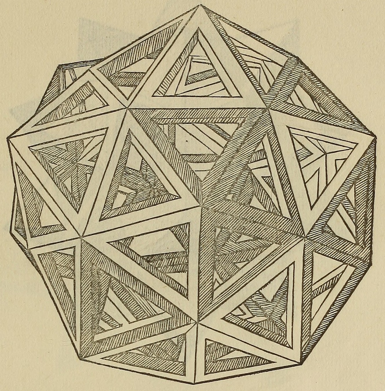 Illustrations by Leonardo da Vinci, from Luca Pacioli's "De divina proportione", 1509 edition.